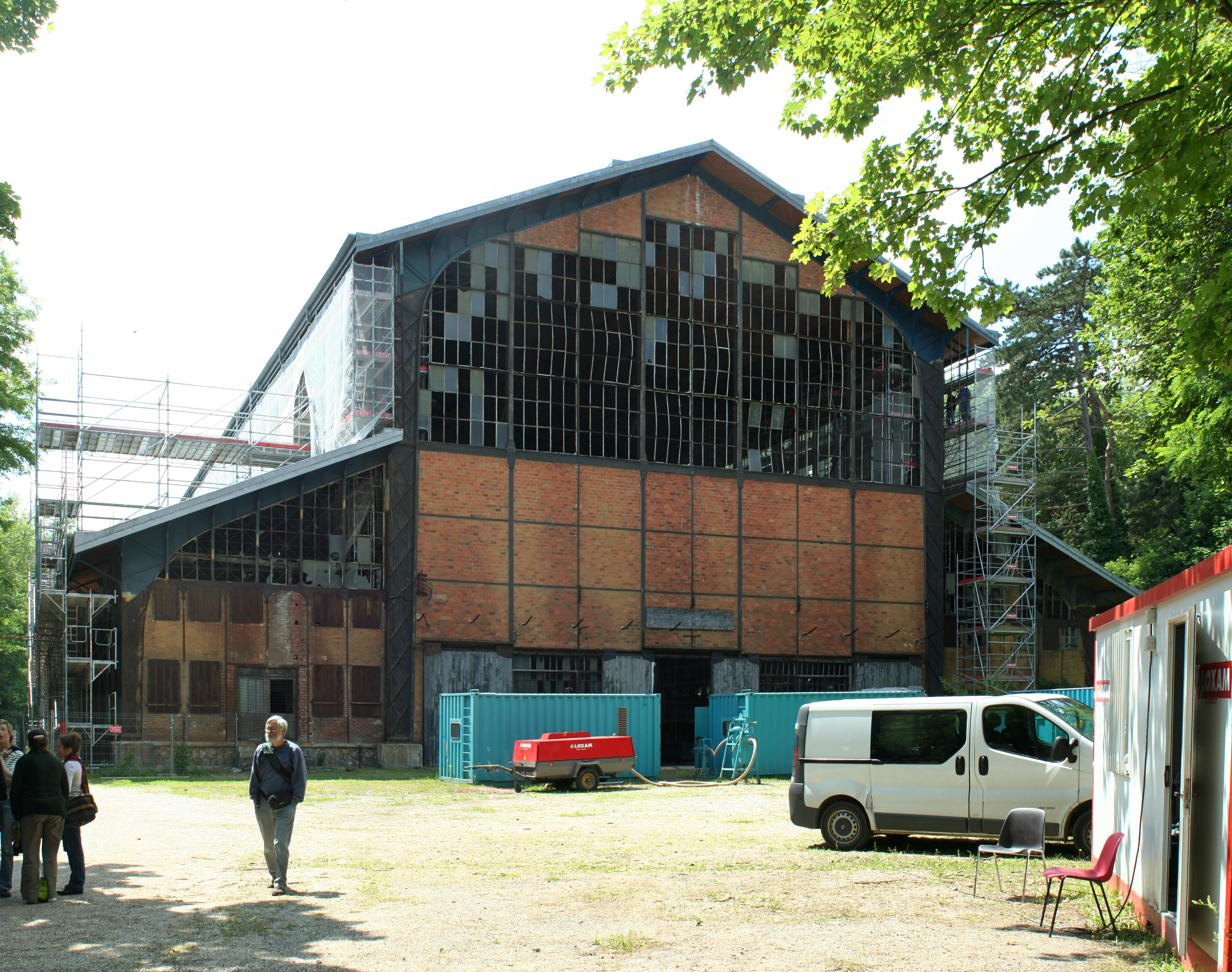 Hangar Y, while being restorated.